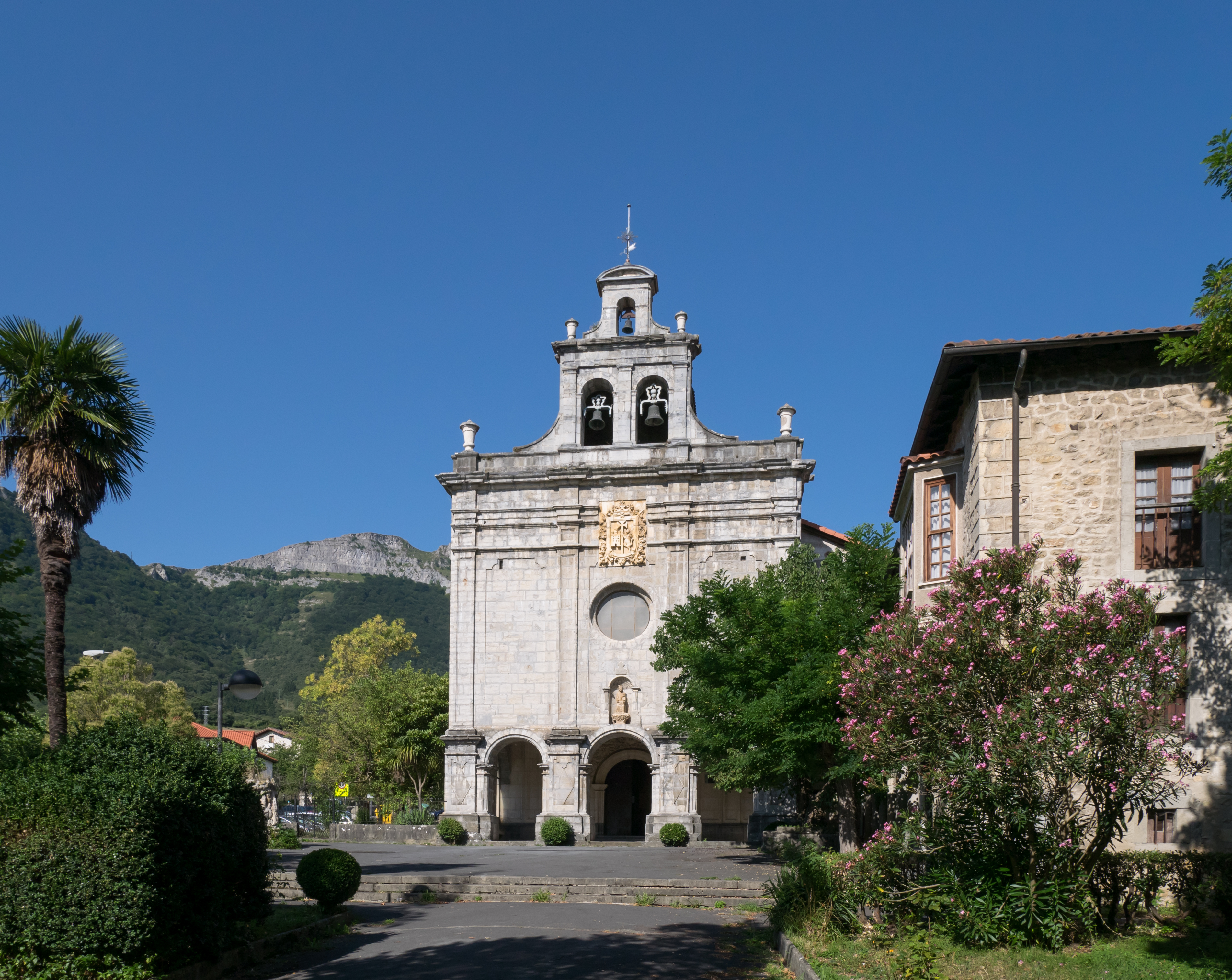 Sanctuary Nuestra Sra. La Antigua. Orduña, Biscay, Basque Country, Spain